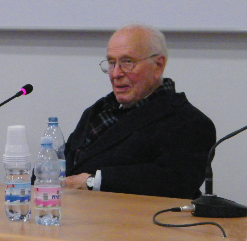 Luigi Luca Cavalli-Sforza. Capo di Ponte, Val Camonica